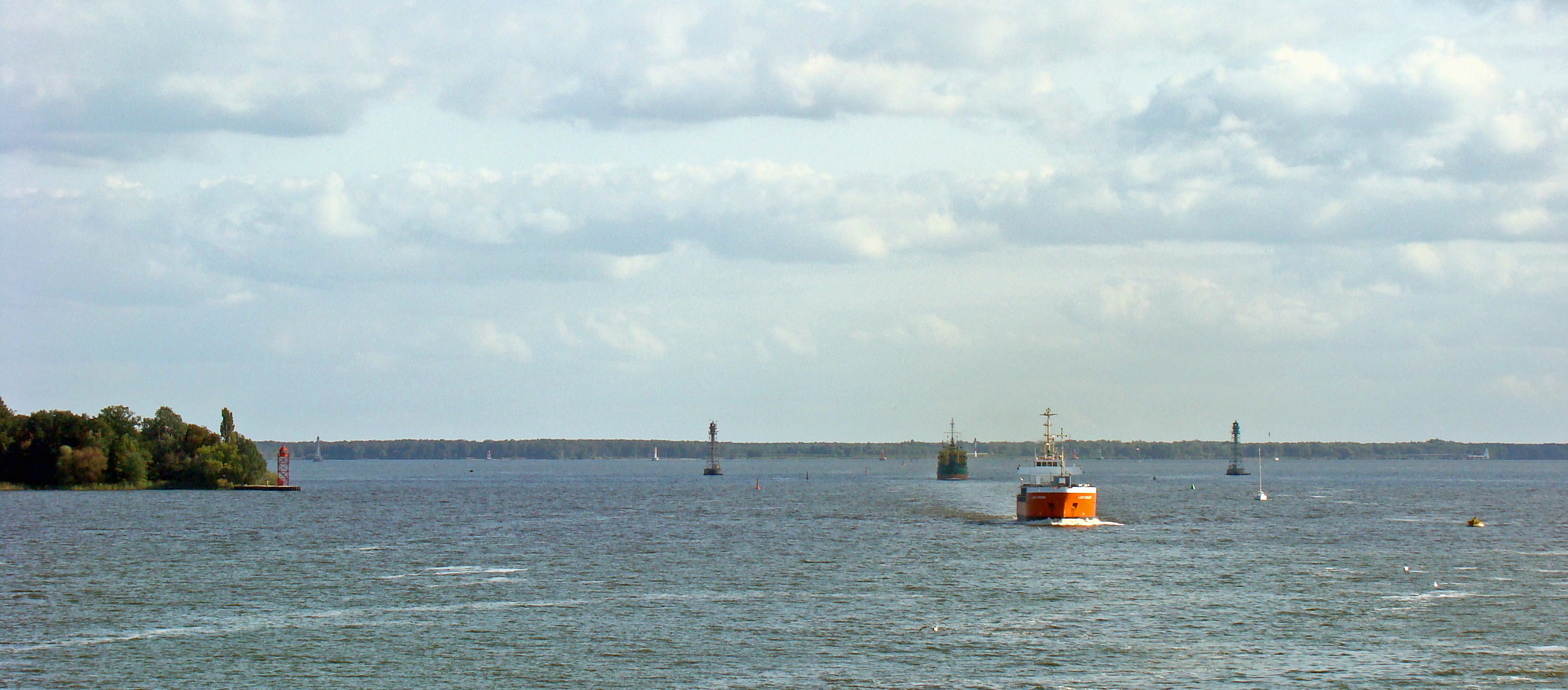 Fairway Szczecin-Swinoujscie, Poland